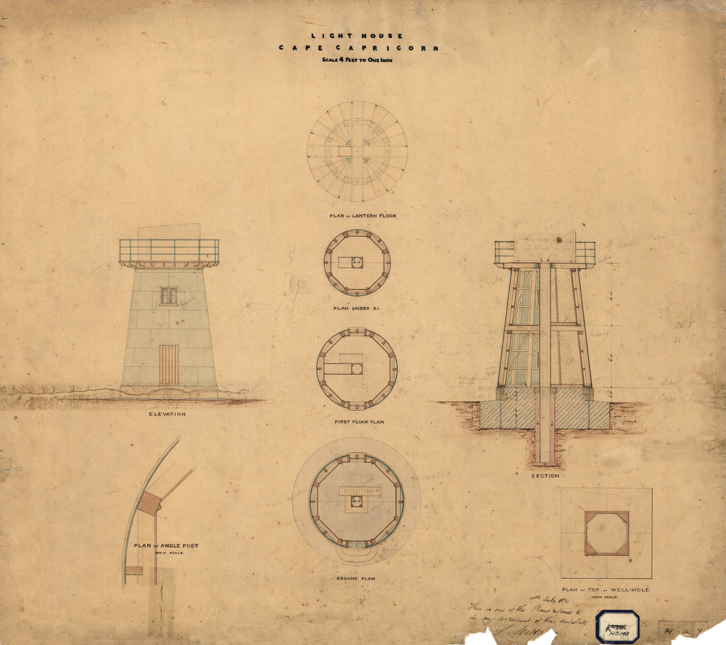 Cape Capricorn Tower - Structure, 1874